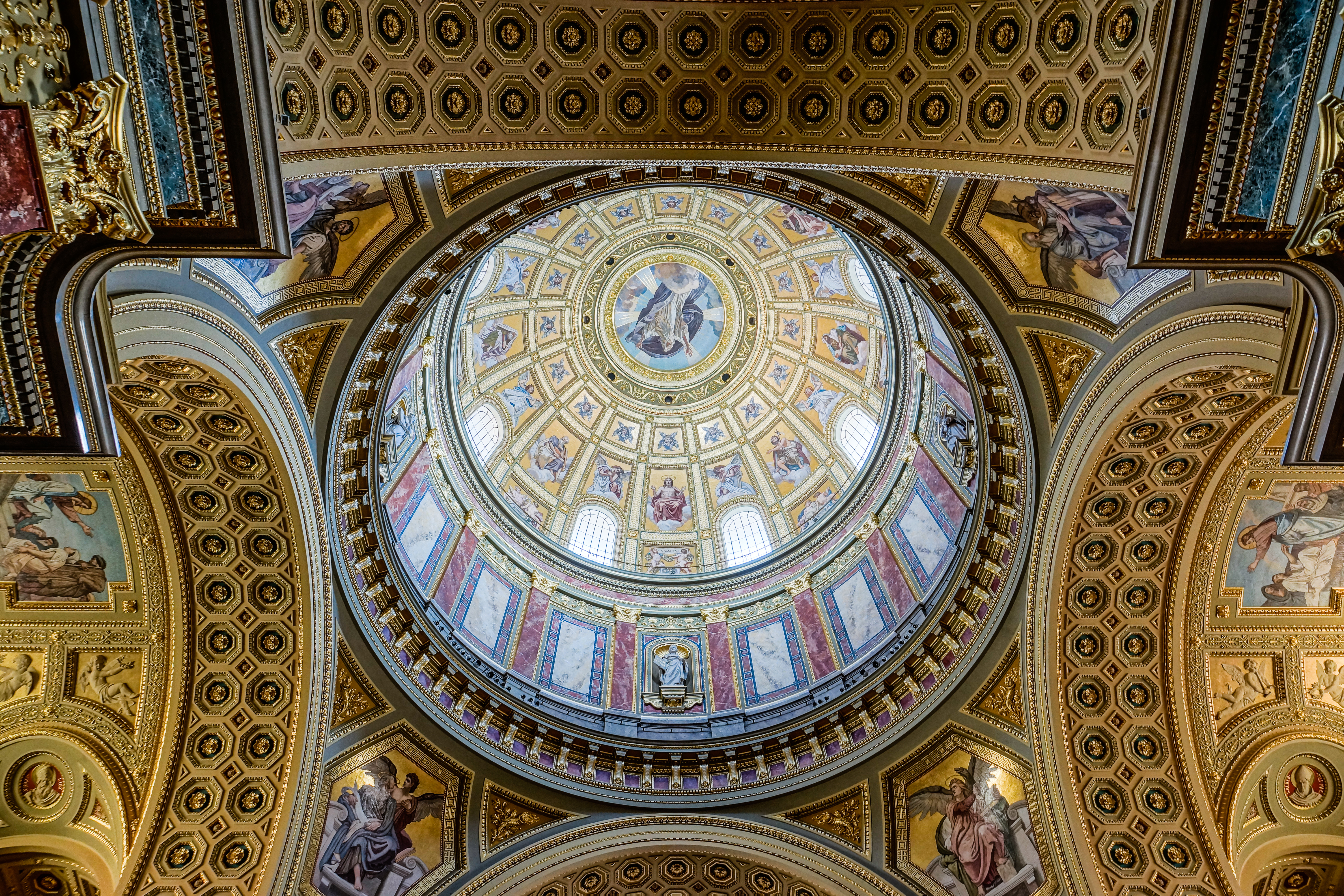 Saint Stephen's Basilica in Budapest, Hungary. This photo was taken with Sony SLT-A77 camera, thanks to cooperation with Sony Poland.You can see all photographs in category Taken with Sony SLT-A77. English | polski | +/−